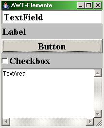 windows form with AWT elements